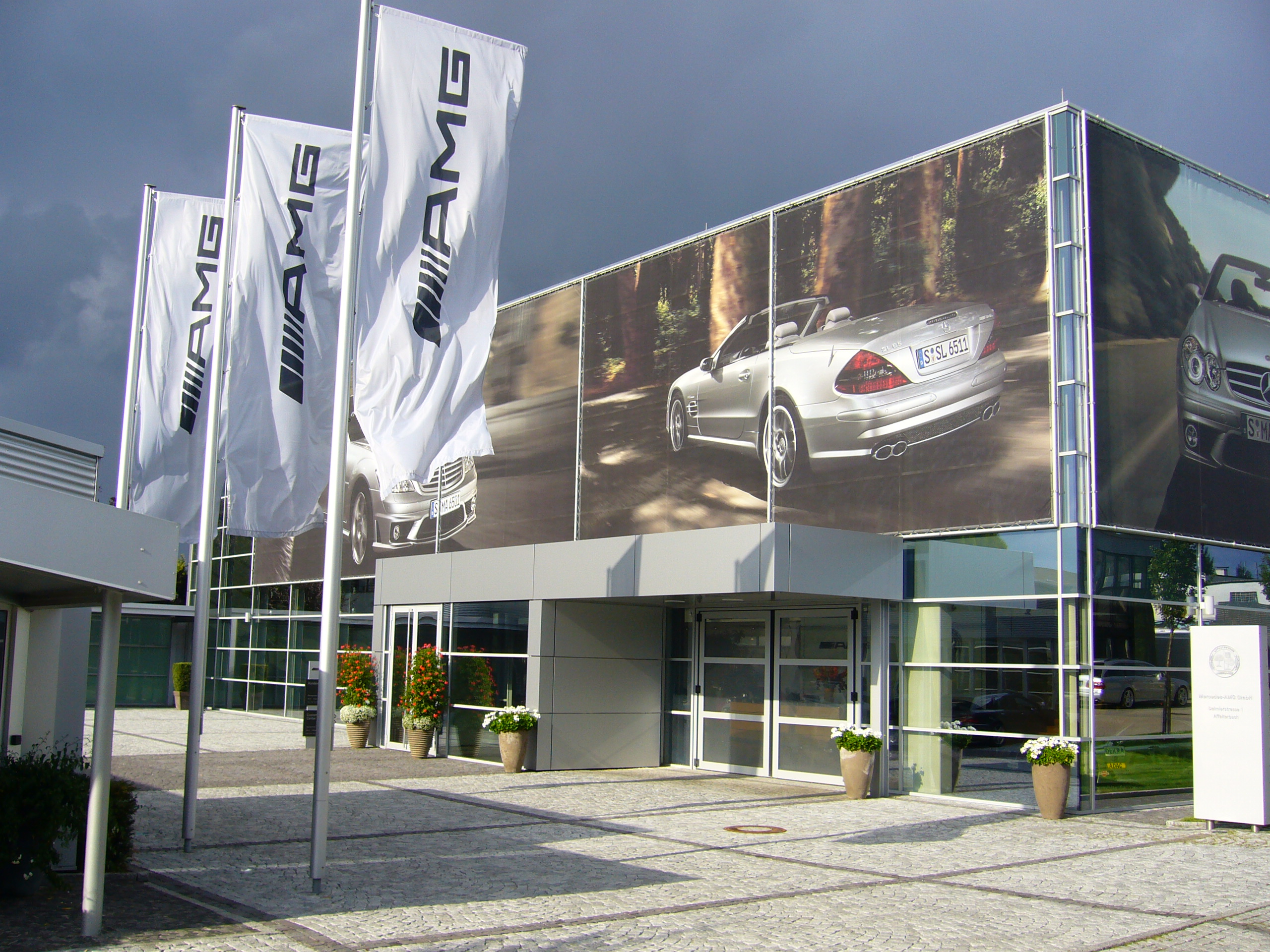 Mercedes-AMG GmbH Affalterbach customer service entrance.